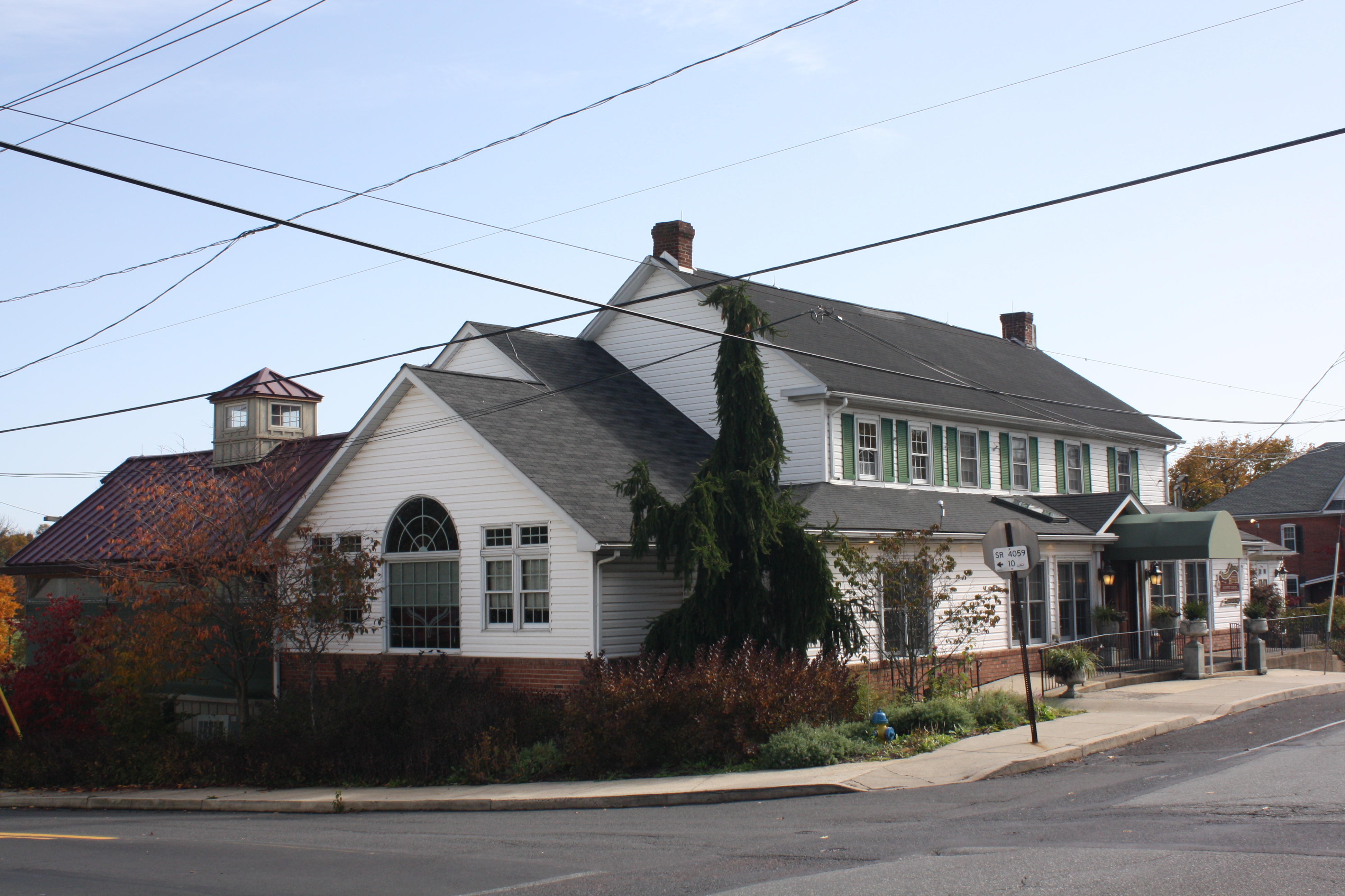 Spinnertown Hotel at Spinnerstown, Milford Township, Bucks County, Pennsylvania. Spinnerstown and Sleepy Hollow Rds.